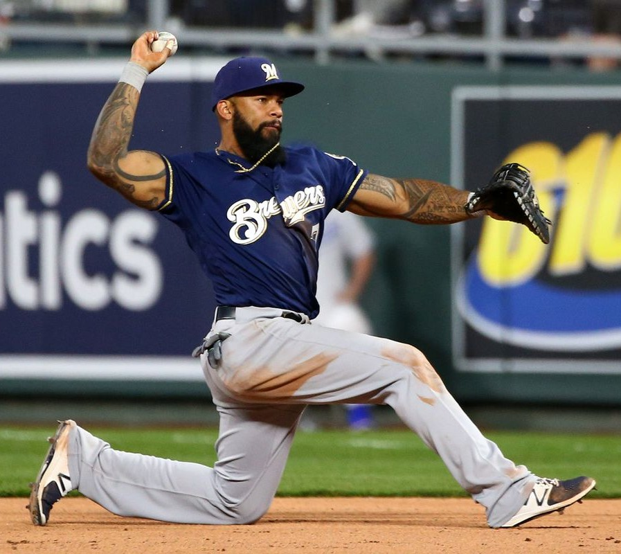 Eric Thames 2019